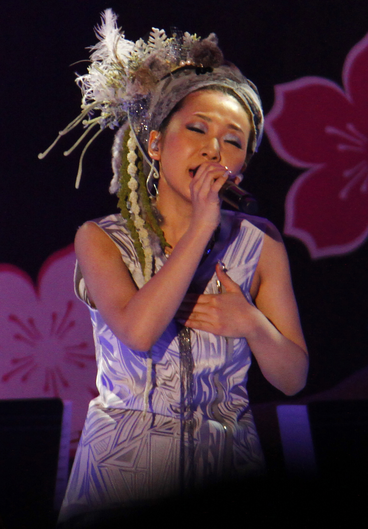 Misia performing at the opening ceremony of the Centennial National Cherry Blossom Festival in Washington, D.C. on March 25, 2012.